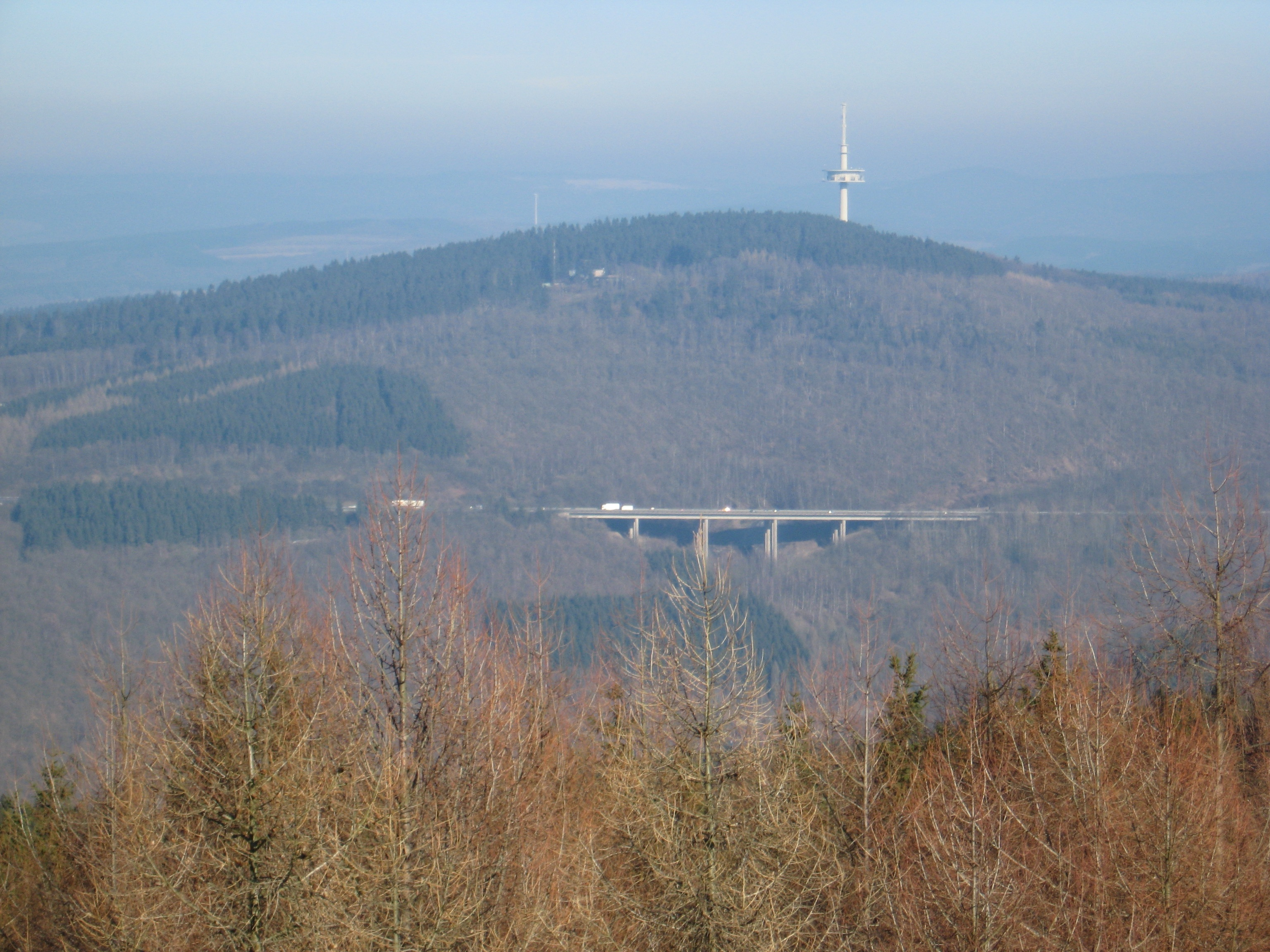 The Eisernhardt mountain (height: 482 m/1.581 ft.) with antenna tower Fernmeldeturm Siegen-Süd near the city of Siegen in Northrhine-Westphalia, Germany. Northbound view from the neighbouring Pfannenberg mountain. Shown in the center of the photo is a highway bridge of the Bundesautobahn 45 near the exit Siegen-Süd.